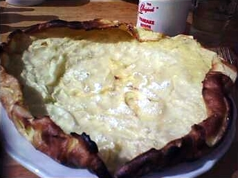 A Dutch Baby pancake at The Original Pancake House. .